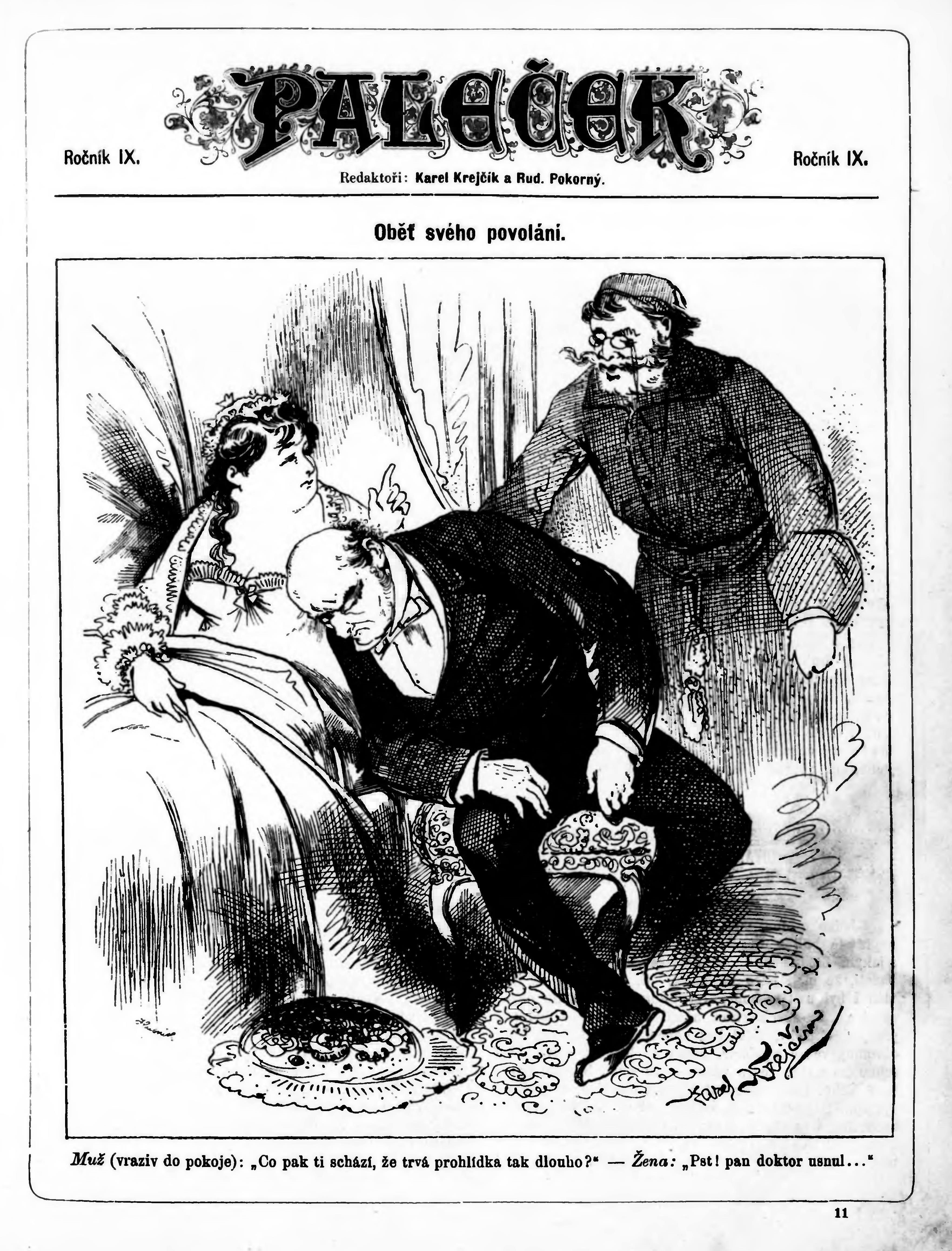 Paleček, 1887, title page